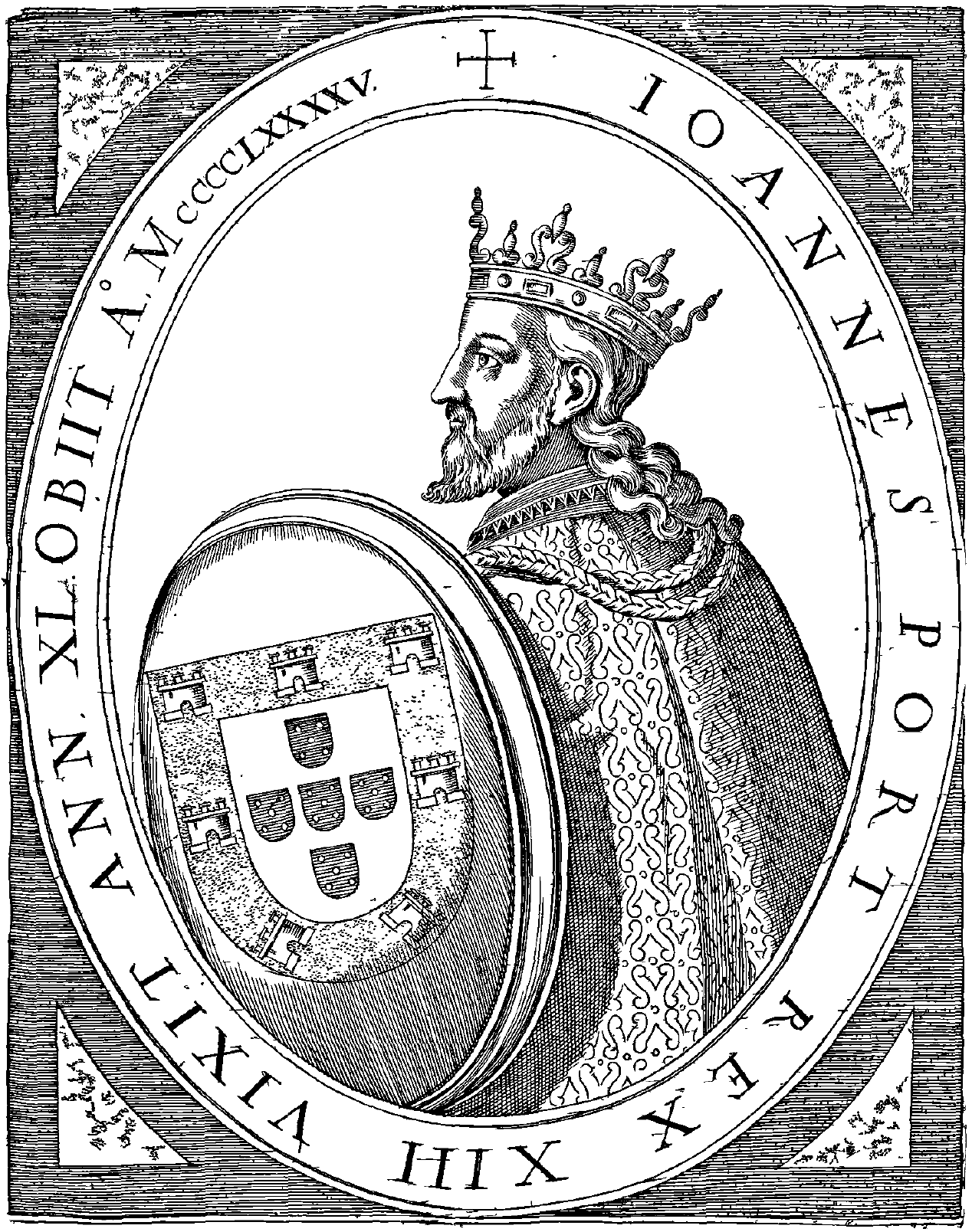 John II, King of Portugal